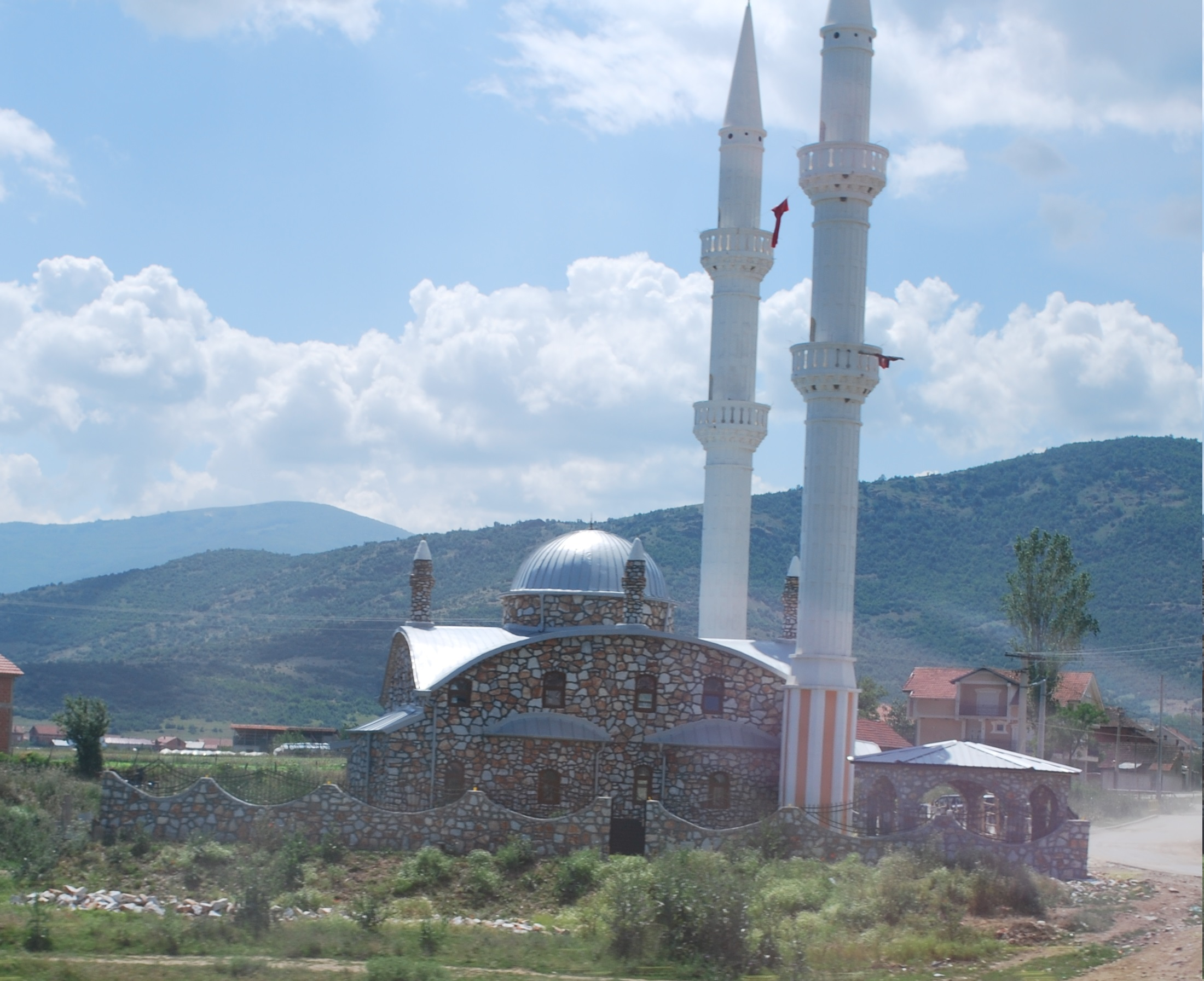 Debrešte near Prilep, Macedonia